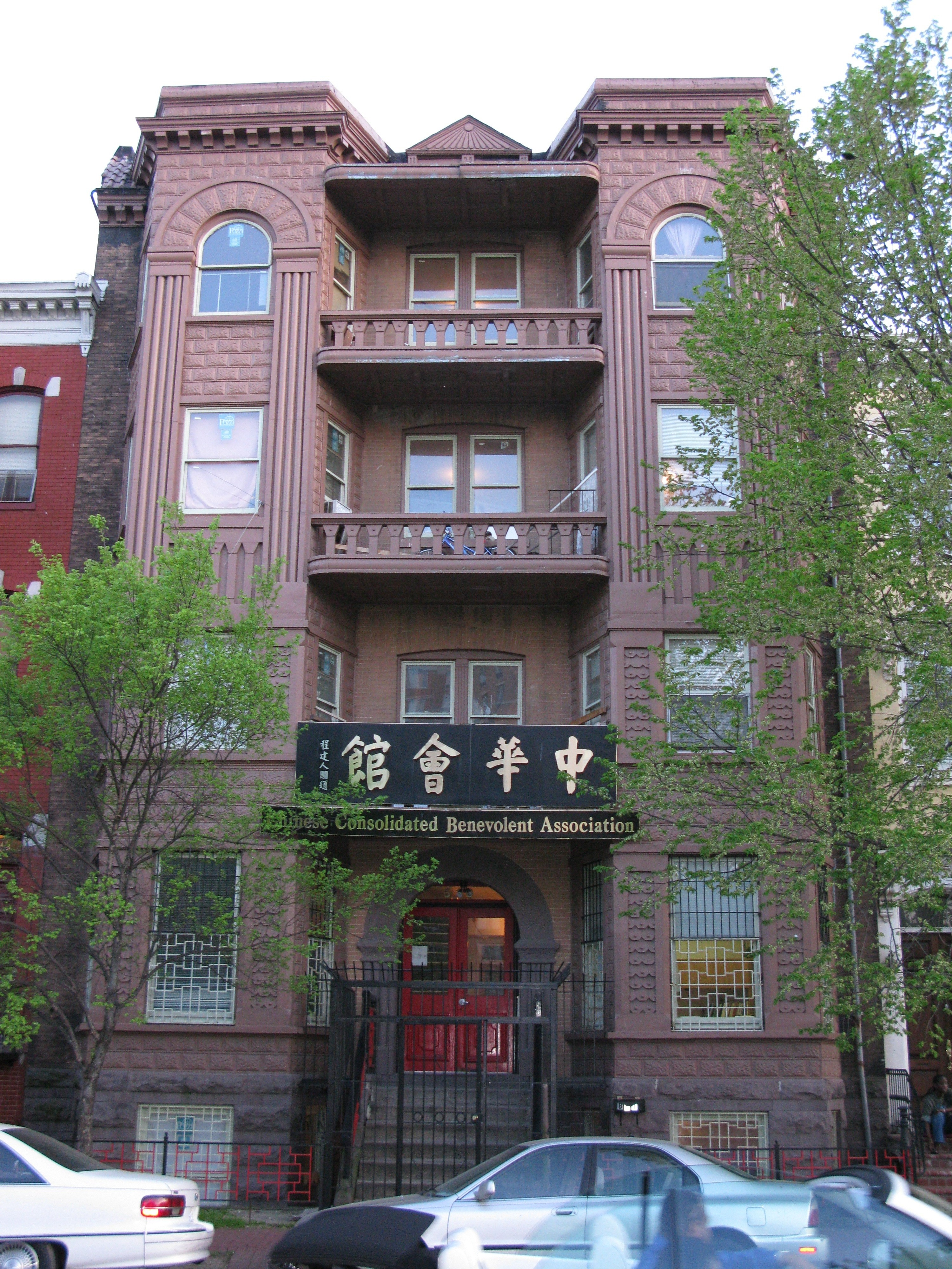 DCCCBA